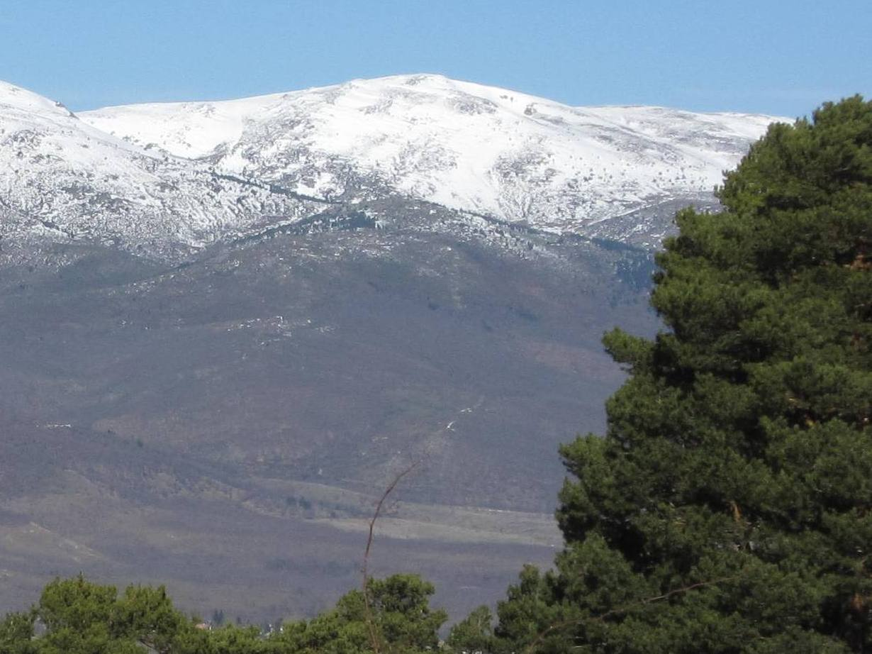 South face of El Nevero peak (Guadarrama mountain range, Central Spain).